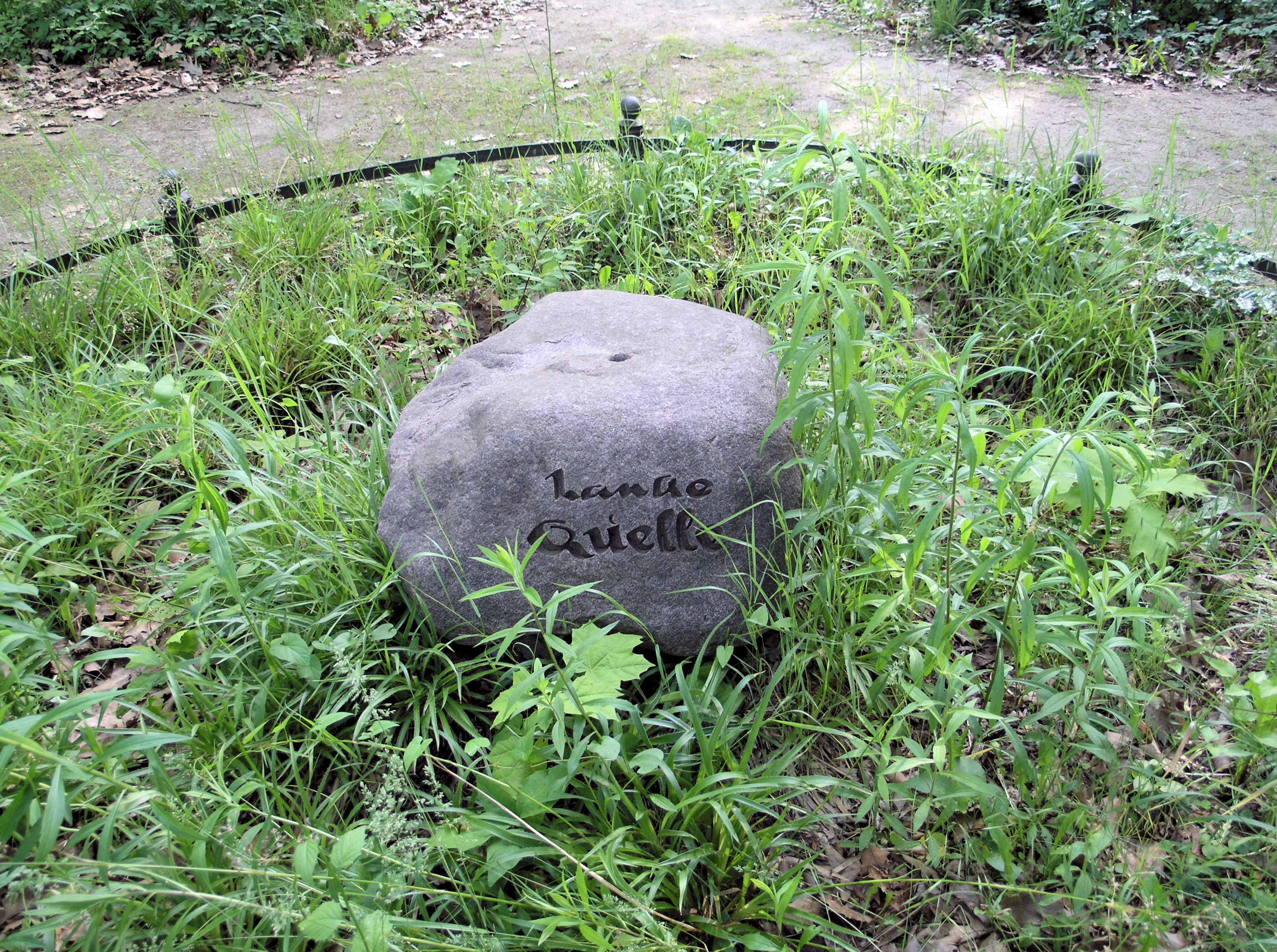 Memorial stones, Quelle der Lanke, Charlottenstraße 64, Berlin-Lankwitz, Germany